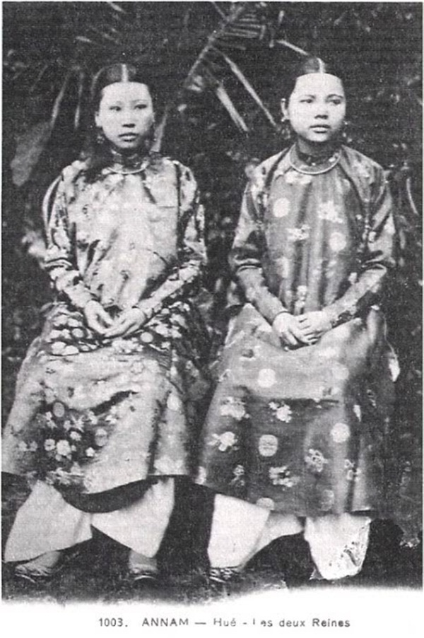 Consorts of Emperor Thành Thái